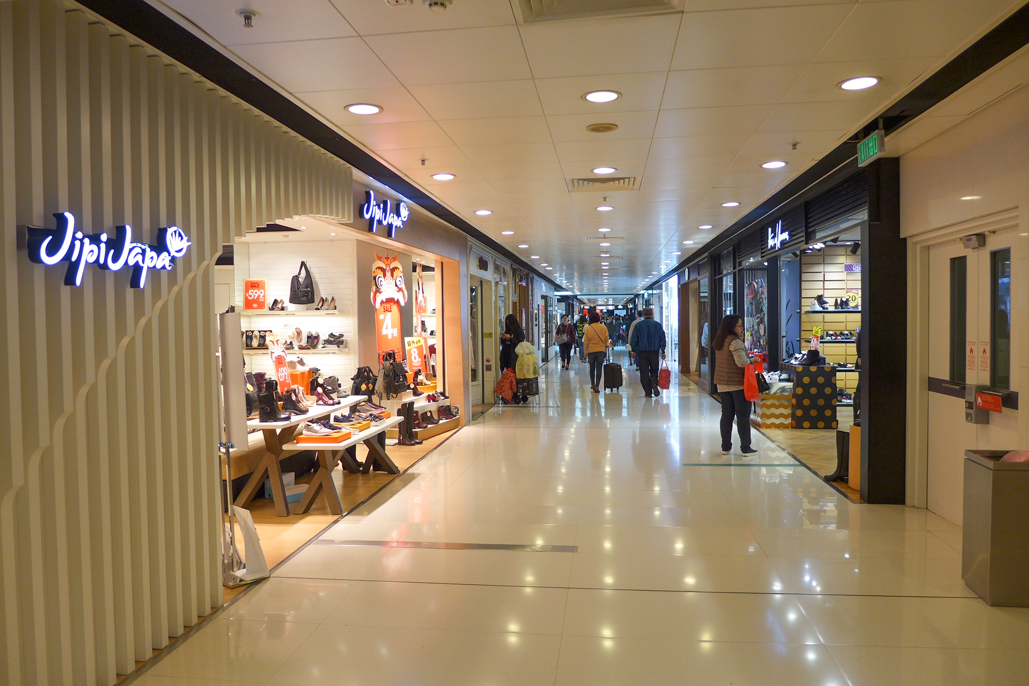 New Town Plaza Phase III Level 3 Shops